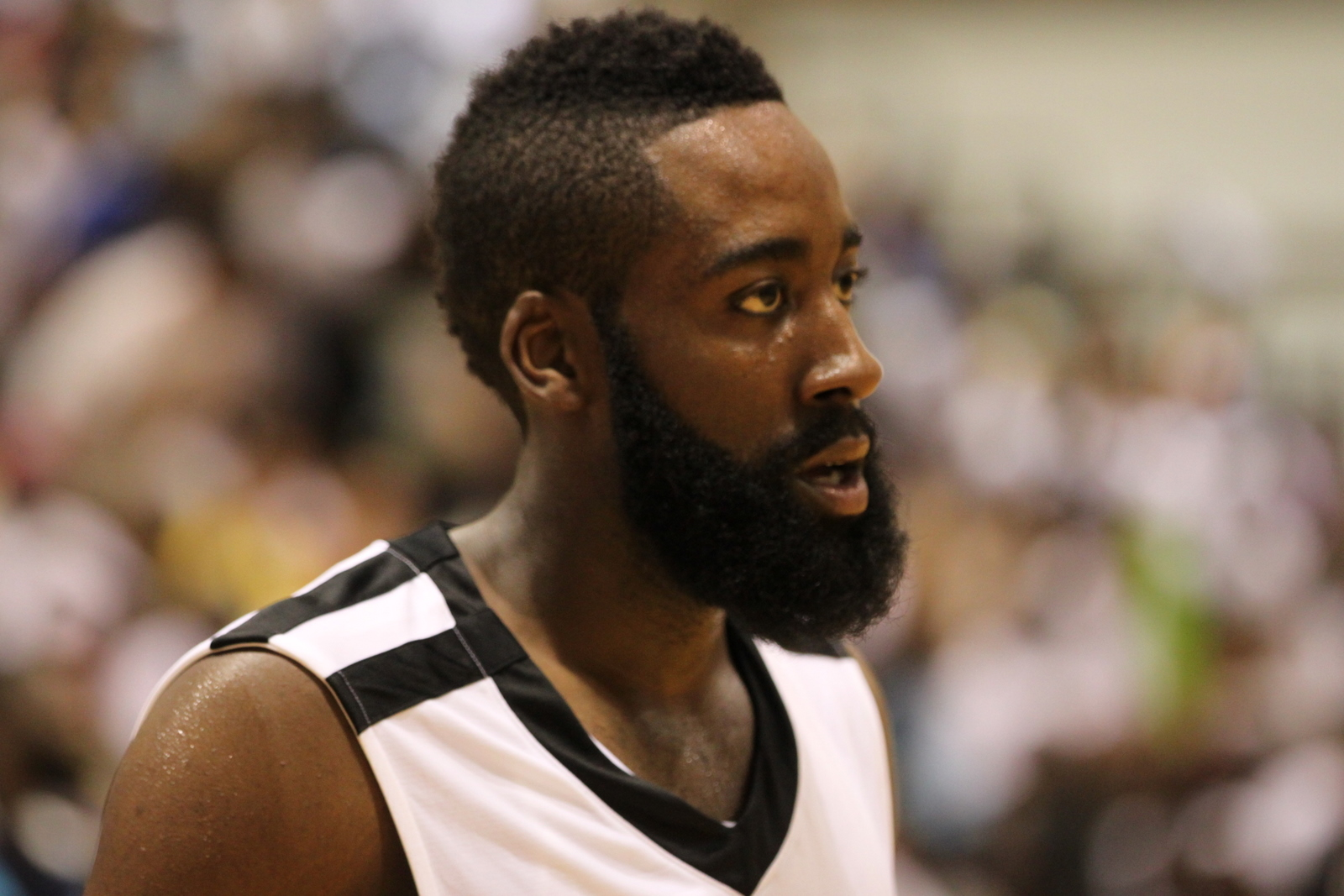 James Harden of the Drew League.